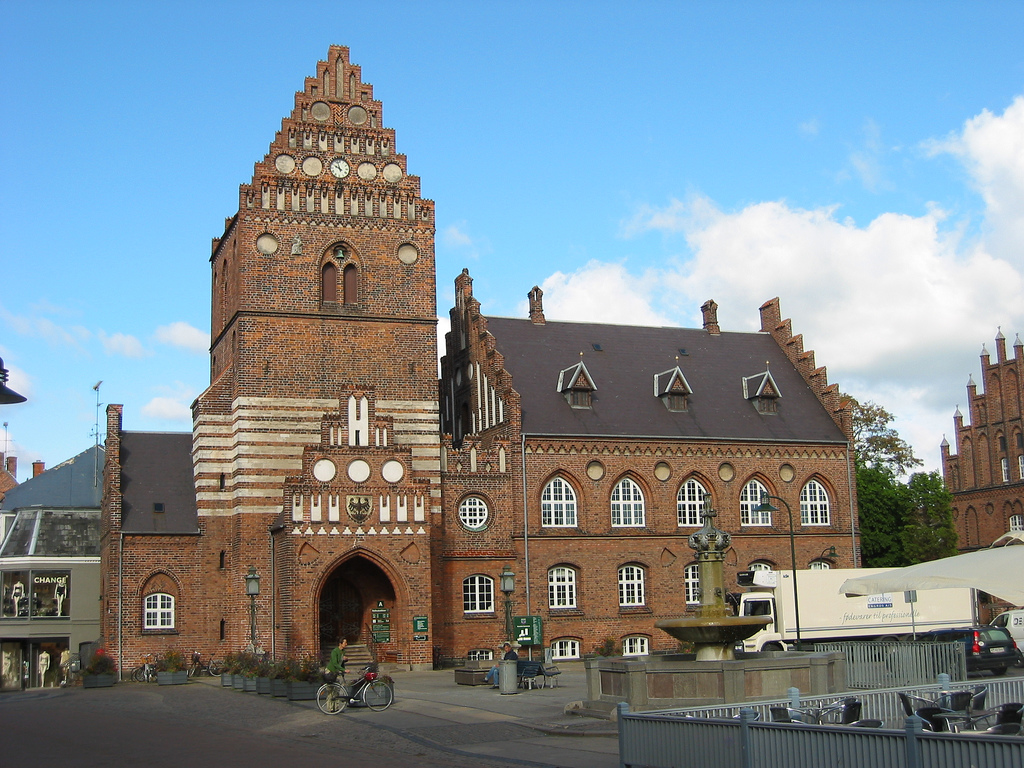 The former city hall of Roskilde, Denmark. Built in 1884. The tower is left-over from a church, originally built in 1125. [1]